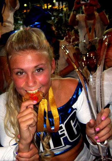 slovenia